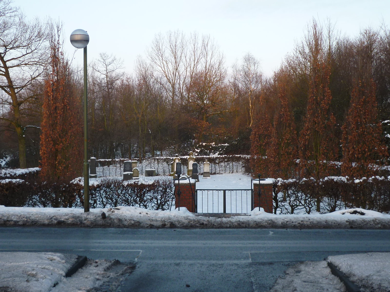 Former Jewish cemetery in Lank-Latum, part of Meerbusch, Germany